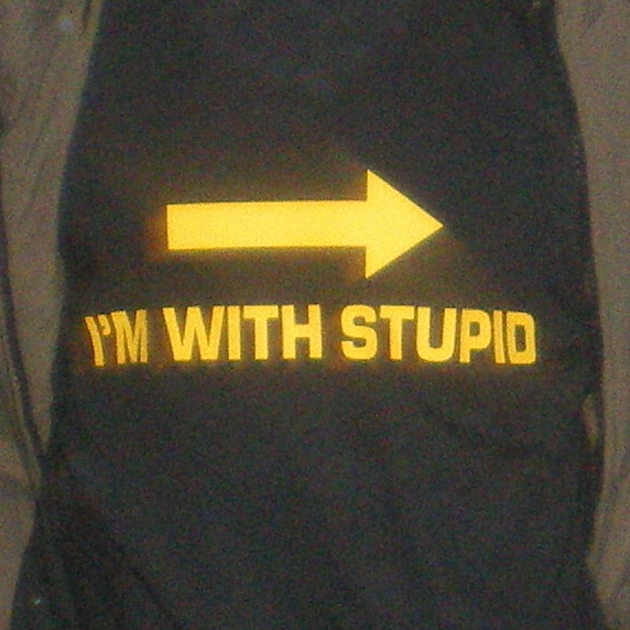 Crop of Image:Lab 012.jpg, an "I'm With Stupid" T-shirt.